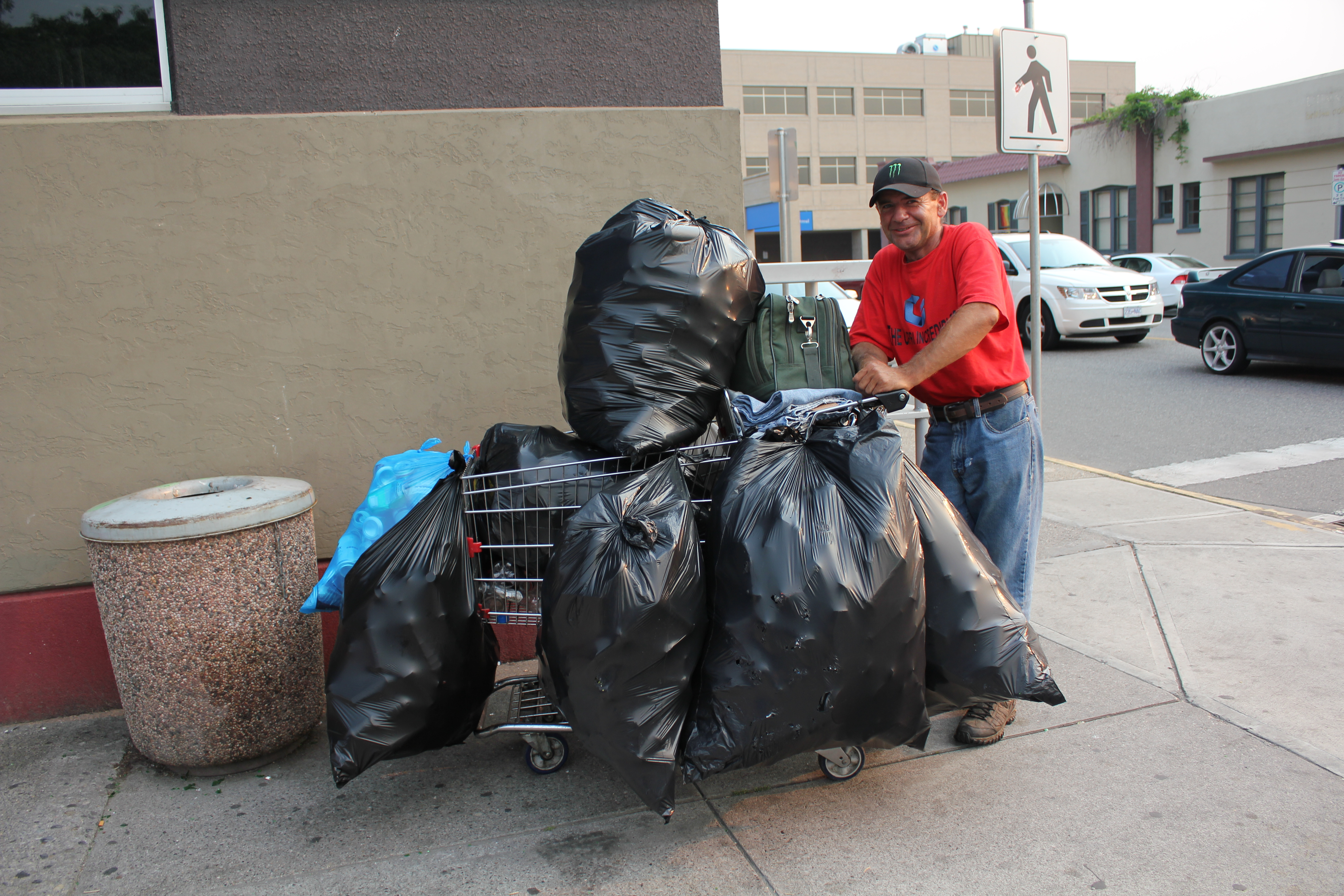 Recycling bottles in Kelowna photography by